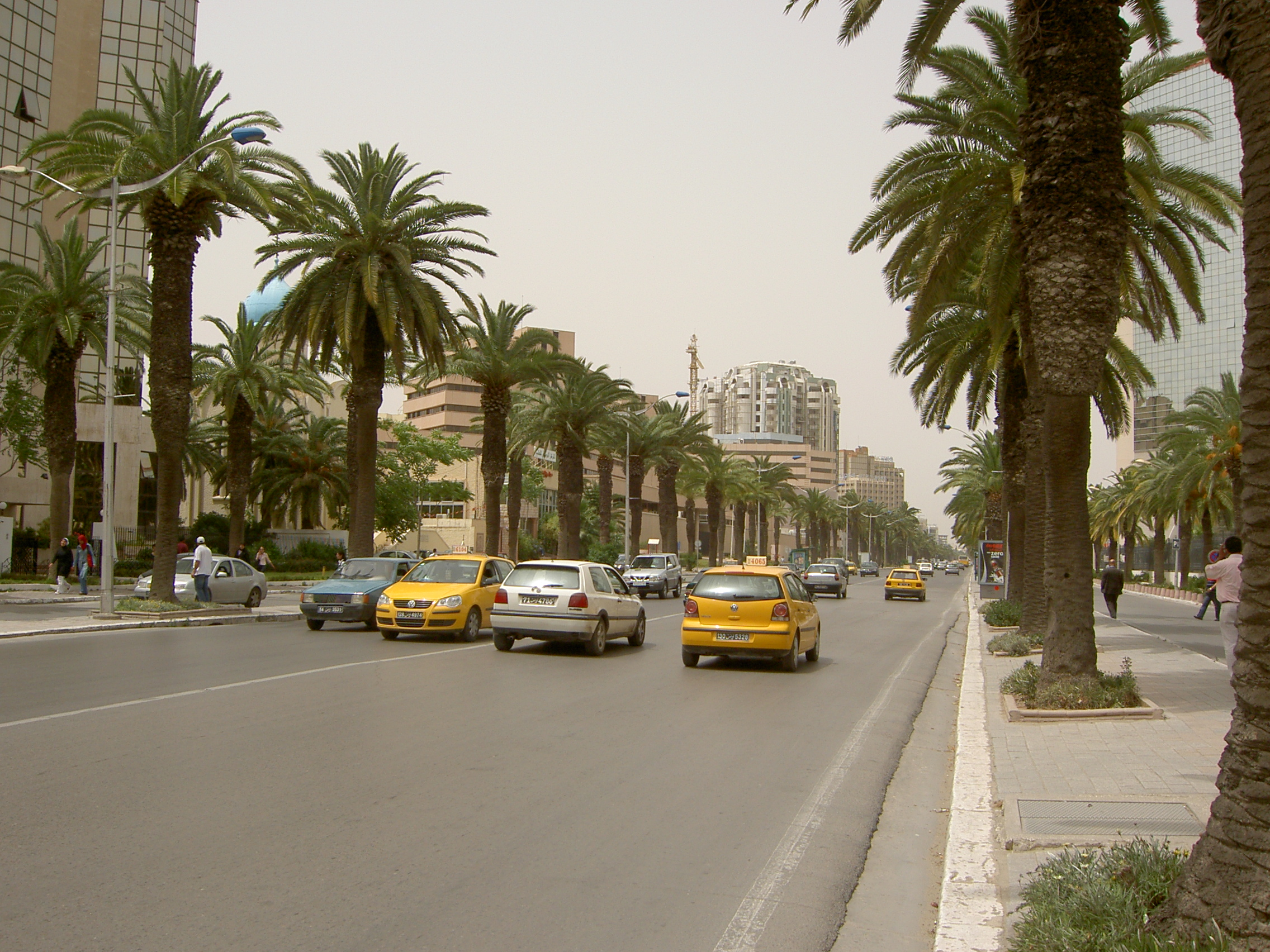 Avenue Mohammed V, Tunis, Tunisia